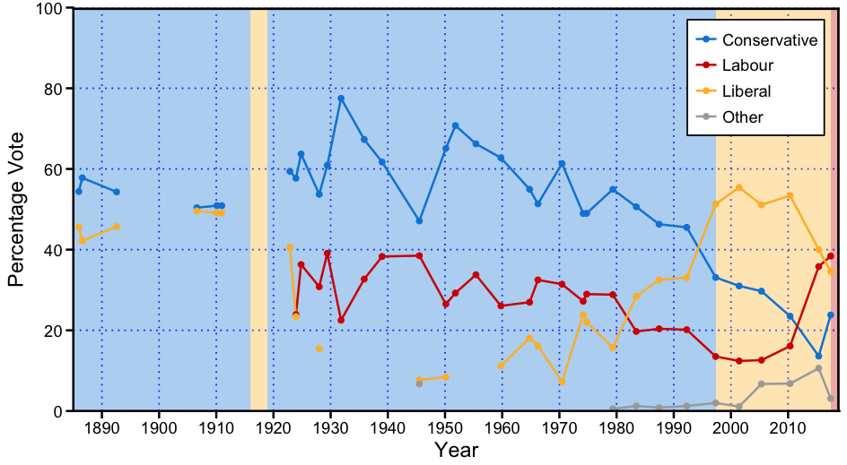 Election results for Sheffield Hallam constituency from its creation in 1885 to the 2017 general election. © Jeremy Atherton 2017. Graph drawn with R